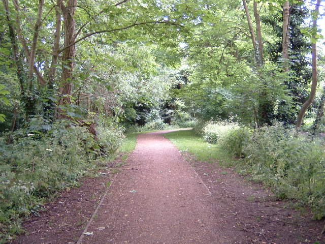 Ock Valley Walk. The Ock Valley Walk runs parallel to Ock Street and along the course of the River Ock, Abingdon's second river. Most of the route of the walk has the river on both sides.